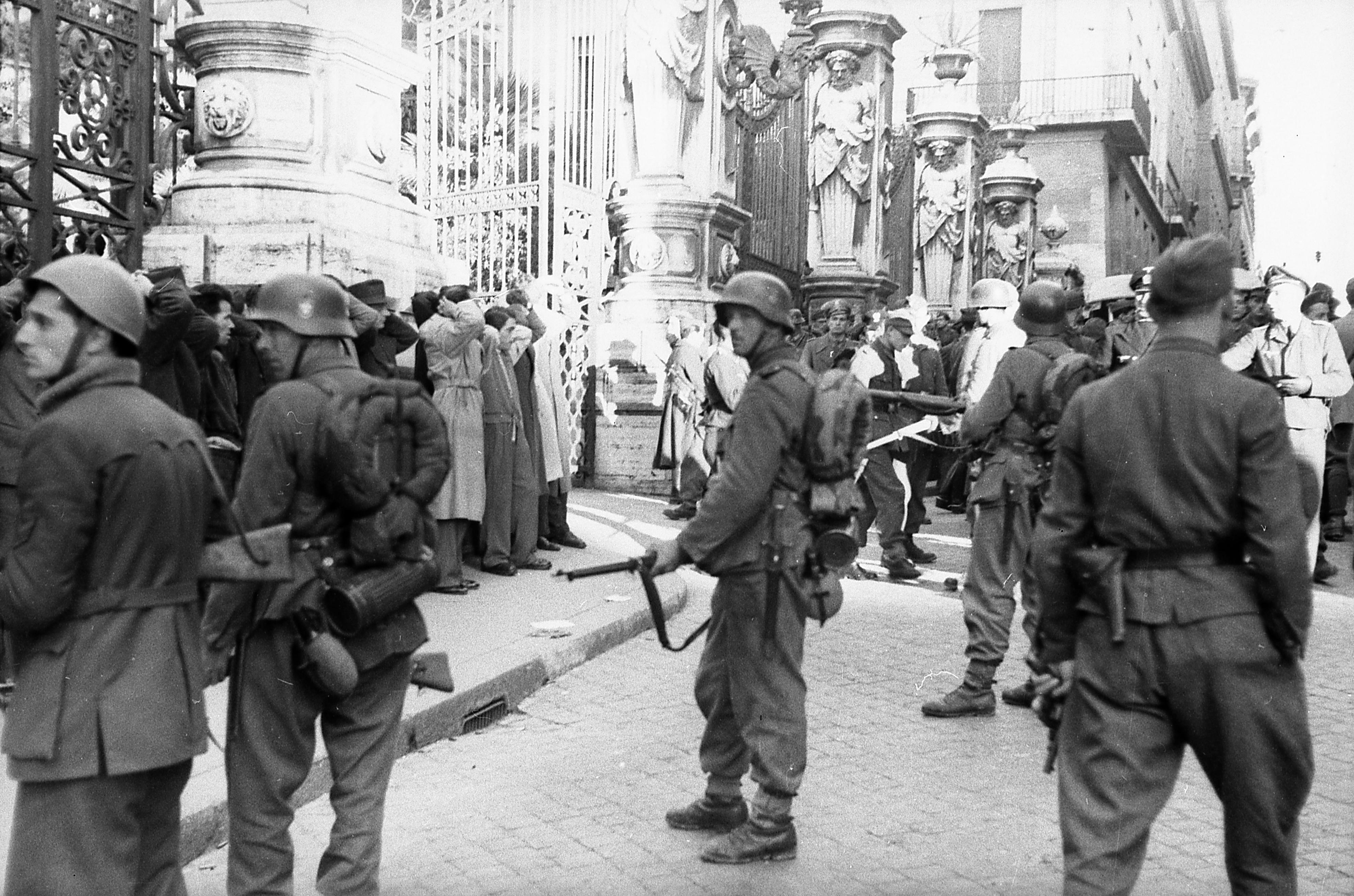 Information added by Wikimedia users.*